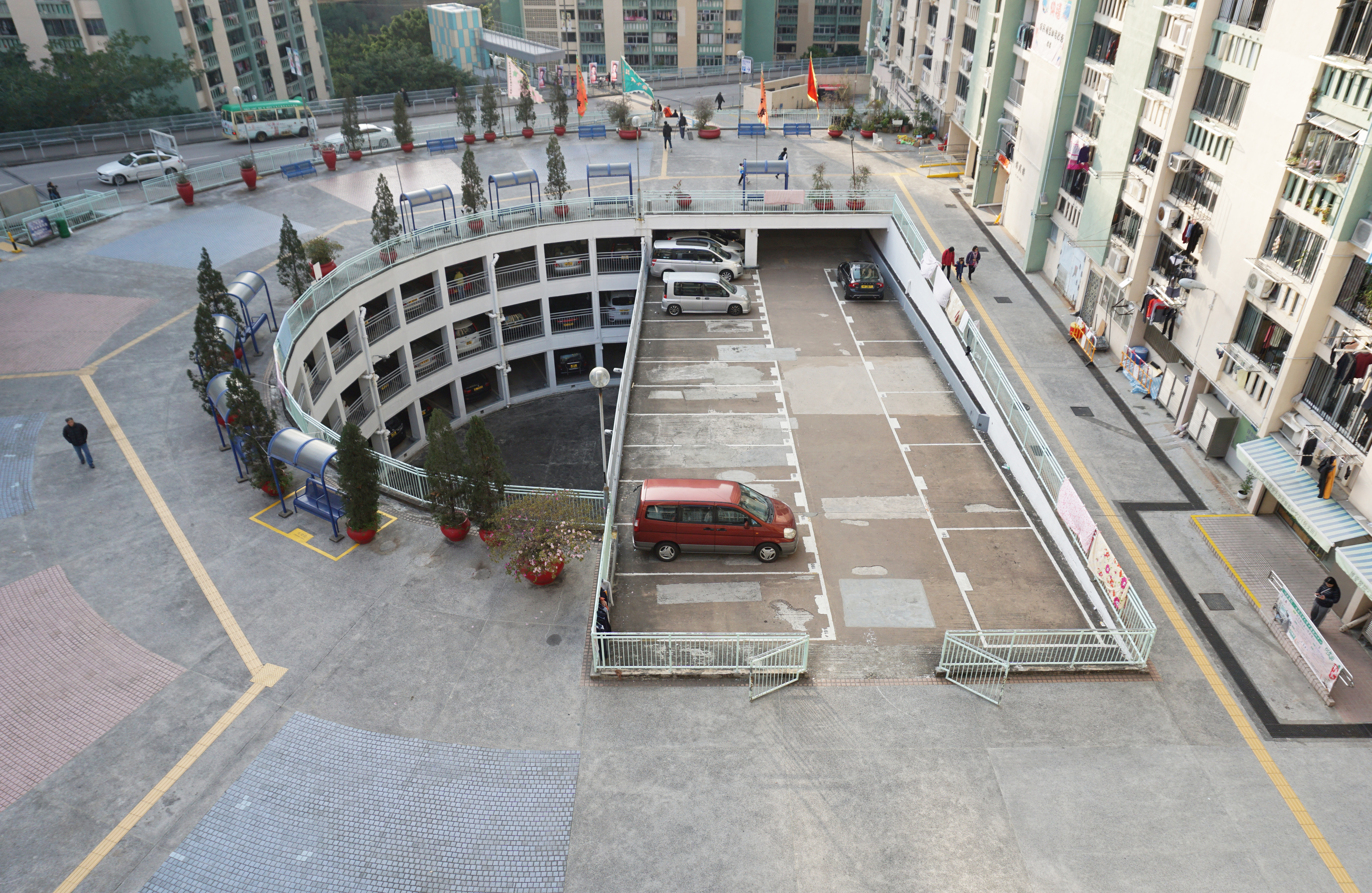 Oi Man Plaza in Ho Man Tin, Hong Kong.